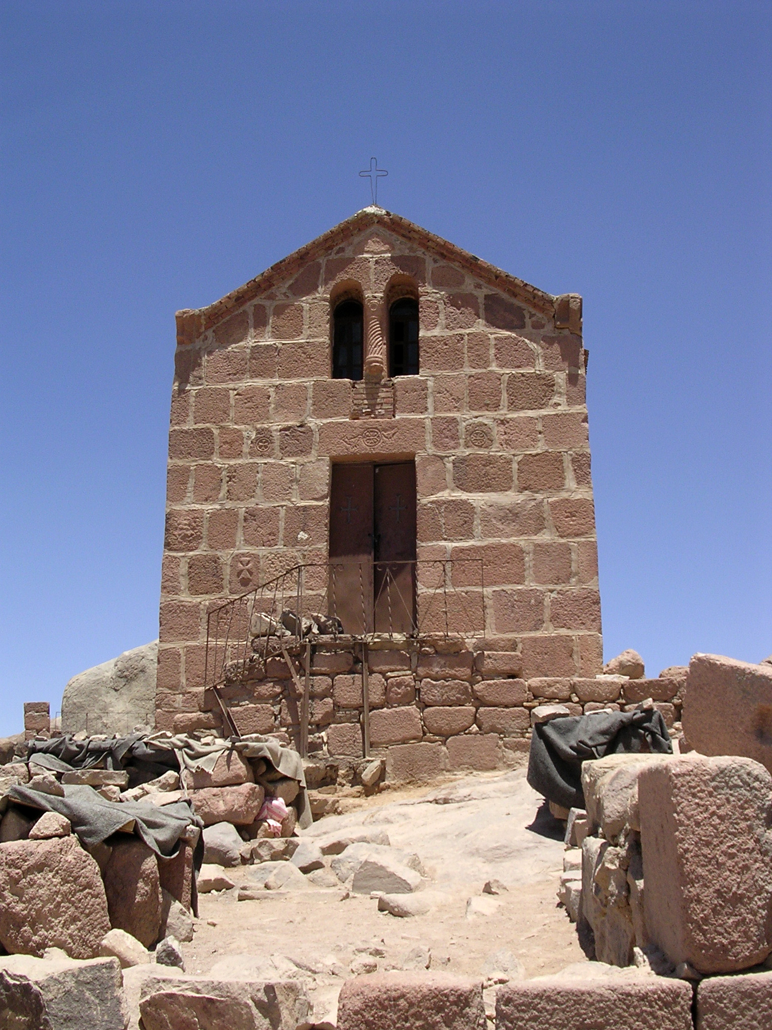 Chapel at the summit of Mount Sinai, Egypt.